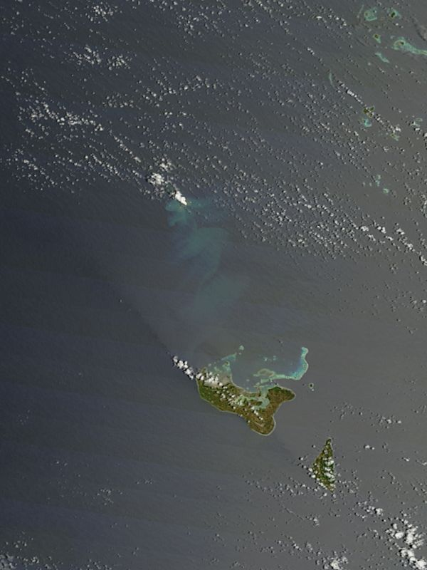 True-color image taken by the Moderate Resolution Imaging Spectroradiometer (MODIS) on NASA’s Terra satellite on December 29, 2014, showing a white plume rising over the undersea volcano Hunga Ha’apai, near Hunga Tonga in the South Pacific. Discolored water suggests an underwater release of gases and rock by the eruption.